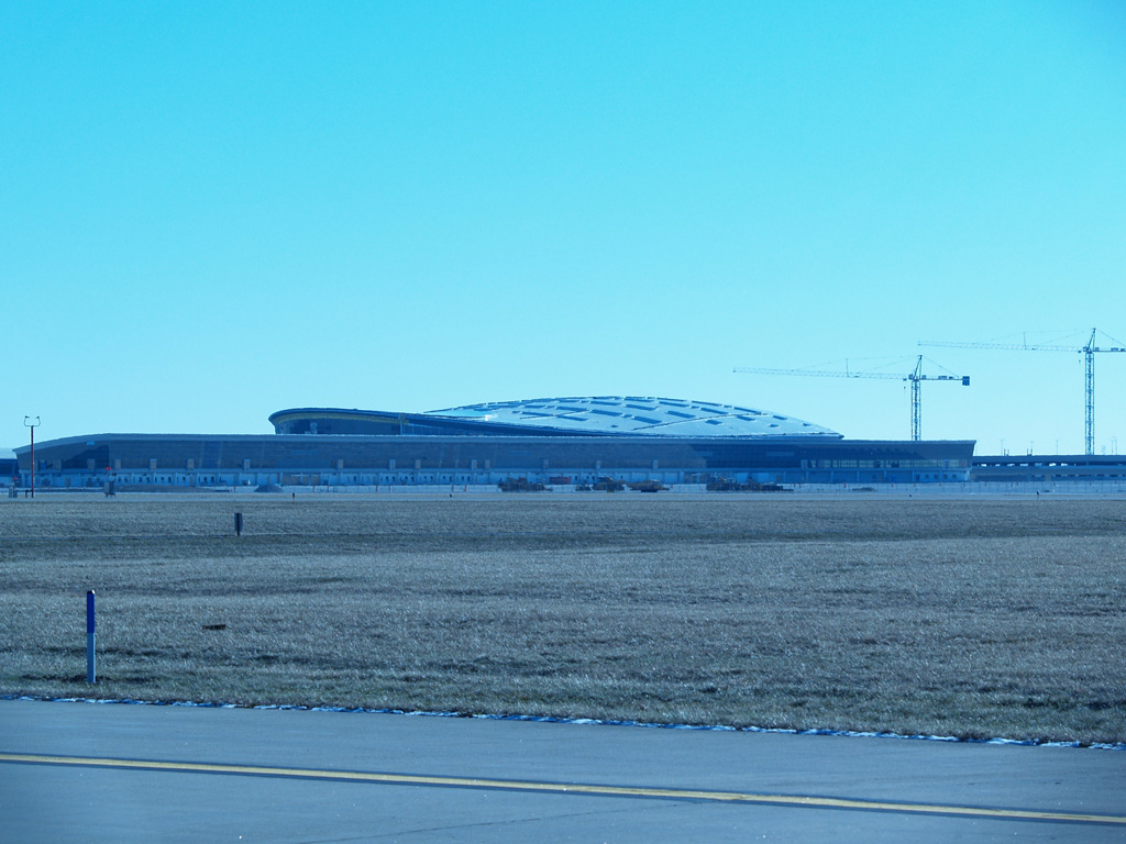 Photo of the Indianapolis International Airport midfield terminal construction. Side elevation photo. Taken on January 20th, 2008 by Dan Hammer (self).